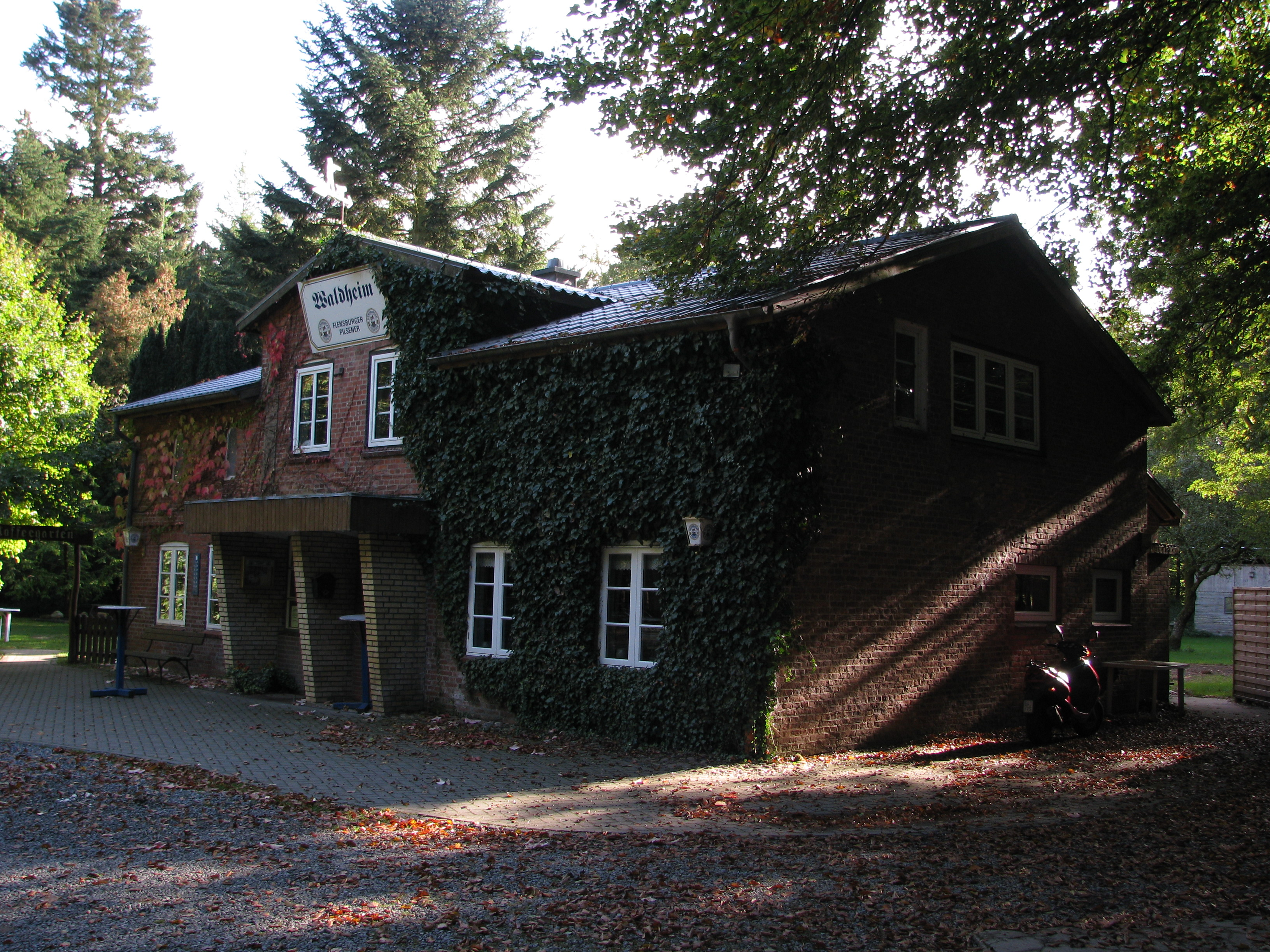 Restaurant Waldheim in forest 'Haaks' near Bohmstedt, Germany